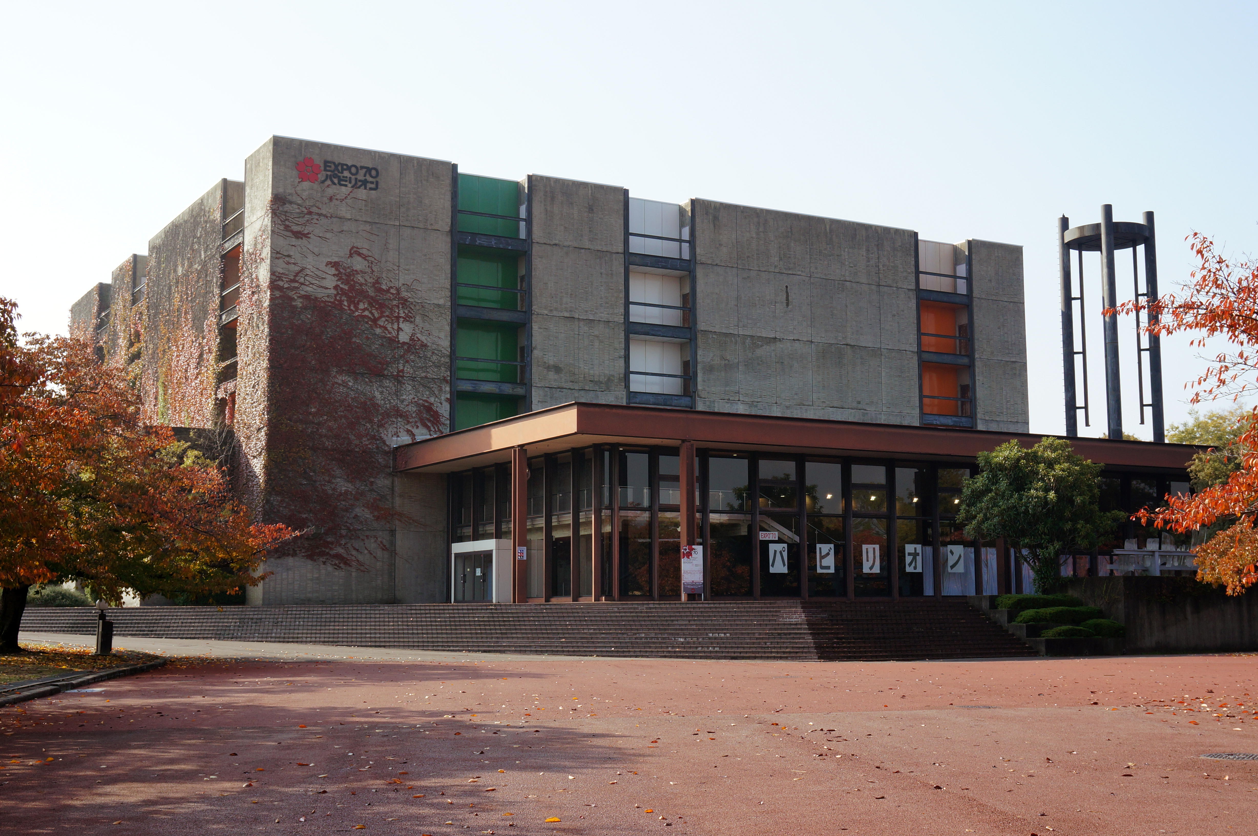 At Expo '70 Commemorative Park in Suita, Osaka prefecture, Japan.